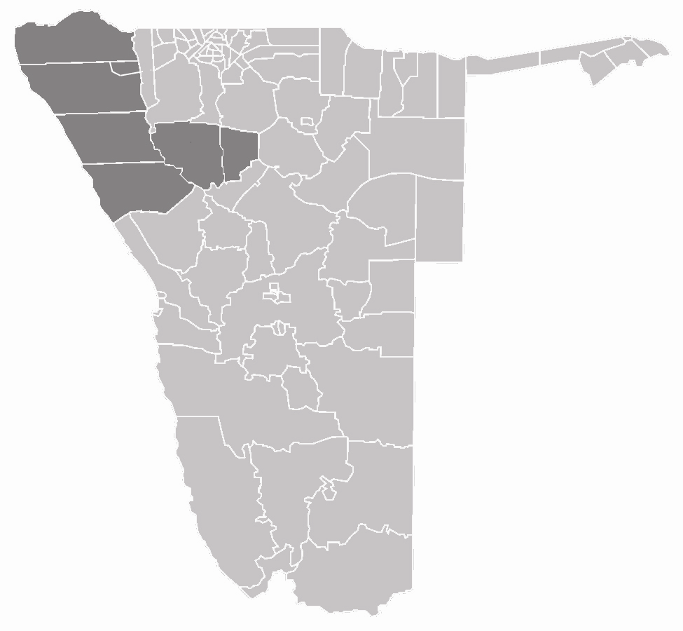 map of the Kunene region in Namibia